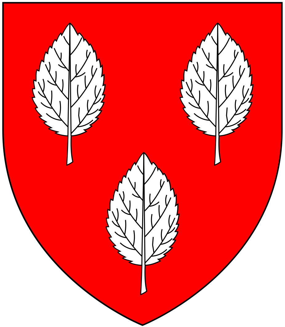 Arms of Cogan, feudal barons of Bampton, Devon: Gules, three mulbery leaves argent. As blazoned in Pole, Sir William (d.1635), Collections Towards a Description of the County of Devon, Sir John-William de la Pole (ed.), London, 1791, p.447, and as depicted quartered on monument of Lady Frances Bourchier (1587-1612) in the Bedford Chapel at Chenies, Buckinghamshire[1]. The arms of Cogan are variously blazoned elsewhere as oak leaves, mulbery leaves, etc.